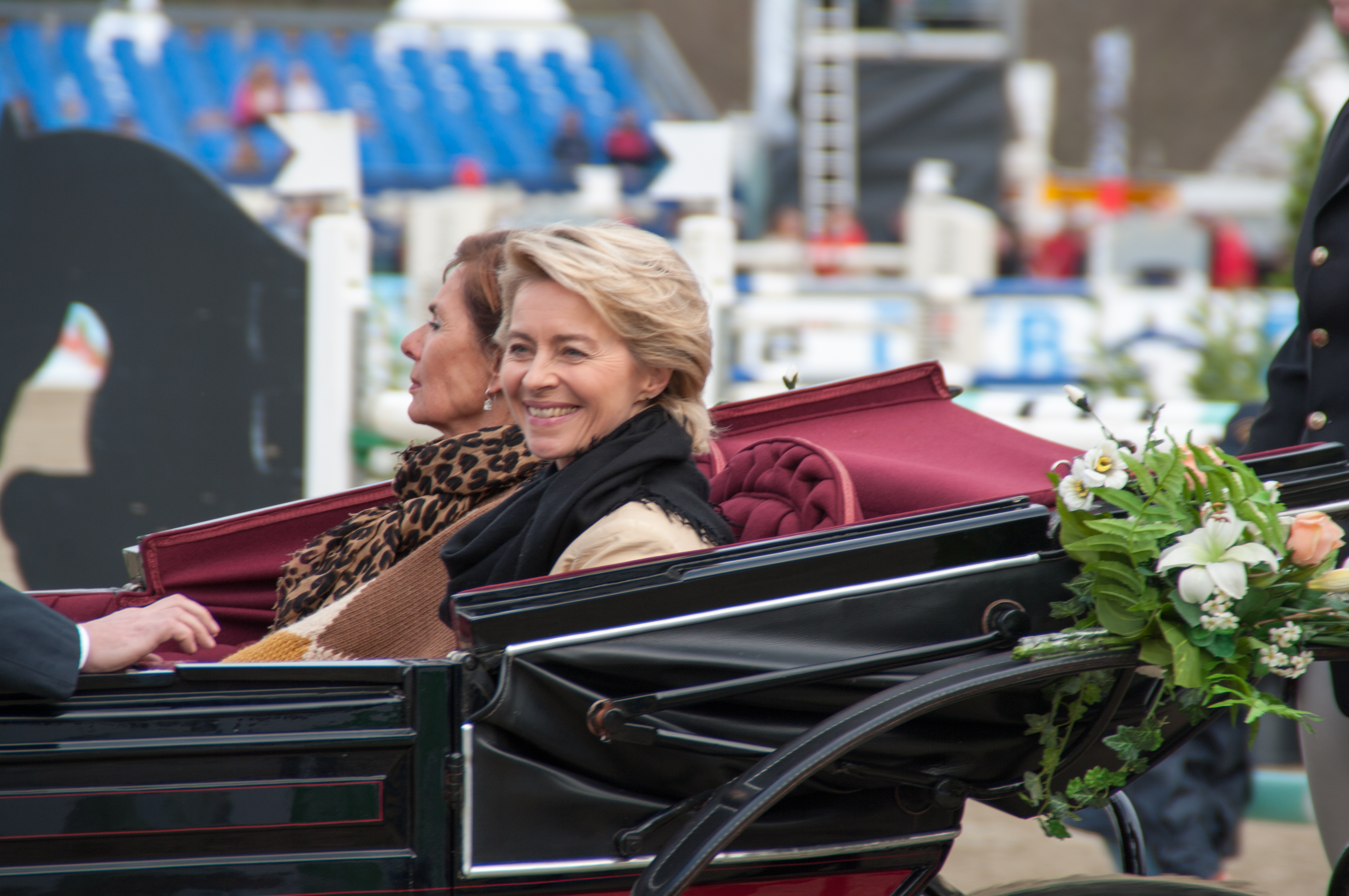 Ursula von der Leyen at the Horses & Dreams Horse Show, Germany